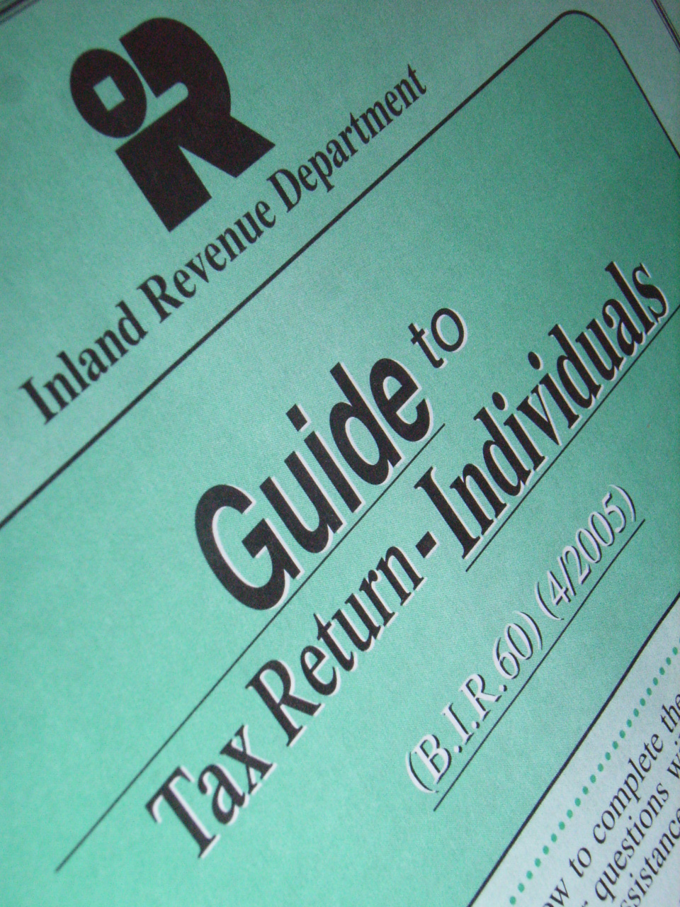 Booklet of the HK Salaries Tax return guide for year of assessment from 4/2005. IRD8